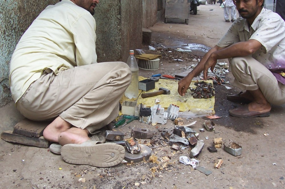 Dismantling electronic waste in New Delhi, India.